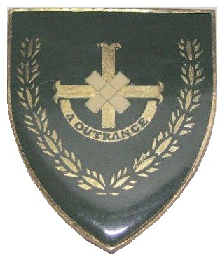 SADF era Regiment Uitenhage emblem